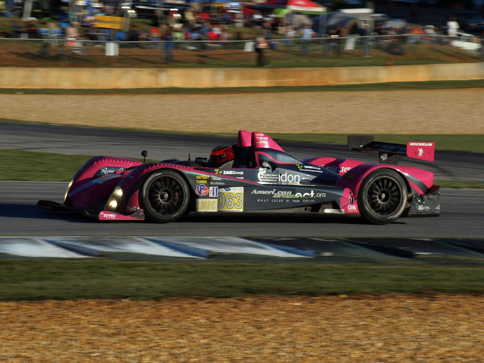 Jordan Grogor driving the Genoa Racing Oreca FLM09-Chevrolet in the 2011 Petit Le Mans at Road Atlanta.